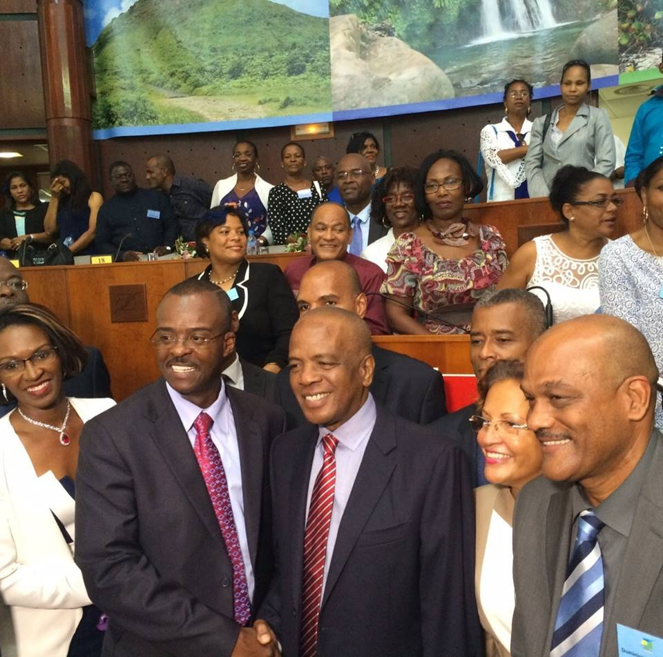 Ary Chalus Dominique Théophile